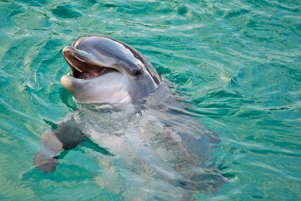 Dolphin from Planete Sauvage (Port-Saint-Pere - FRANCE)